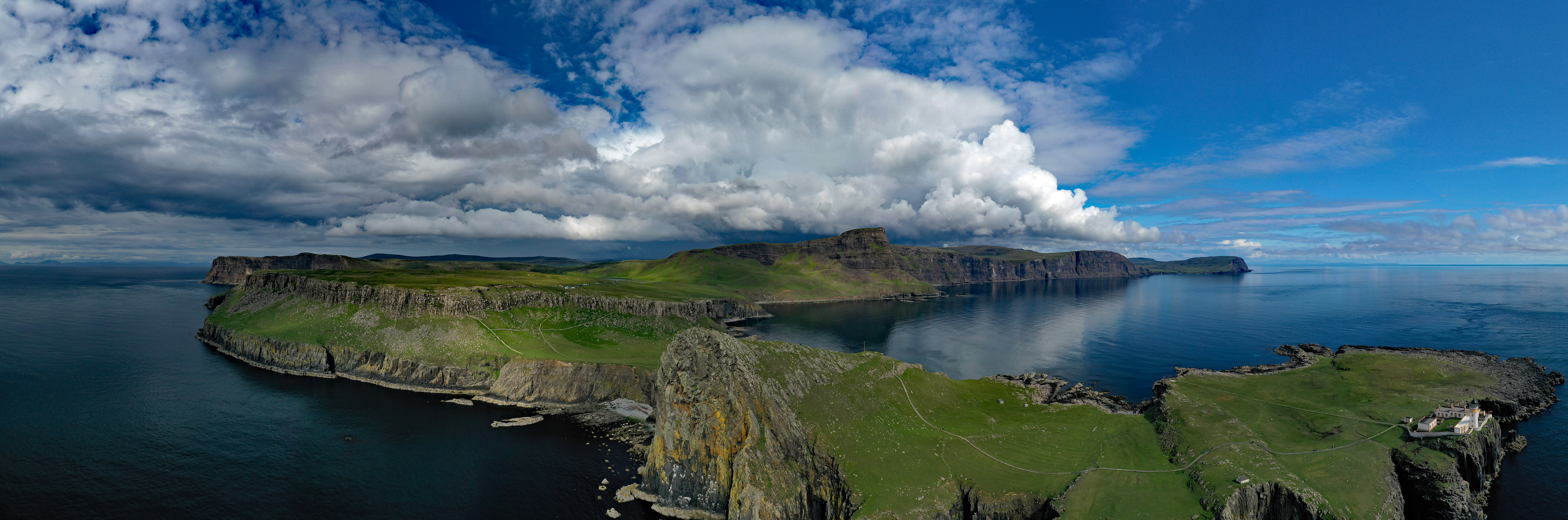 Neist Point (Isle of Skye, Inner Hebrides, Scotland, UK)